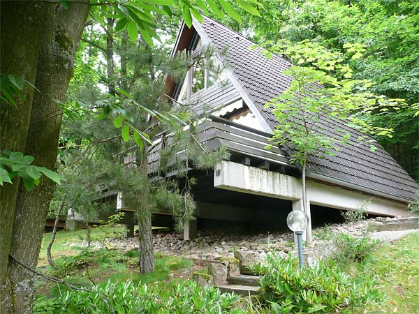 Prefabricated House "Sonneneckchen" in Leinsweiler, Germany.